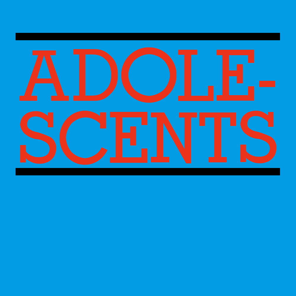 Cover of the Adolescents album Adolescents, originally published in 1981 by Frontier Records.